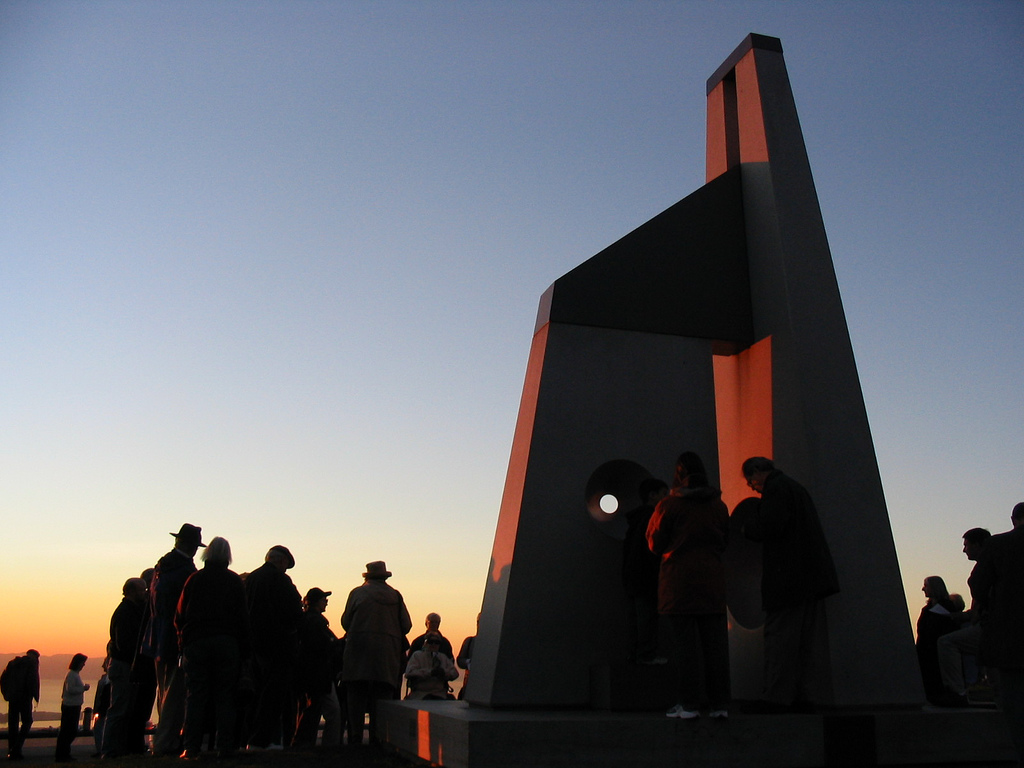 2004 winter solstice viewed at the Lawrence Hall of Science in Berkeley, California, USA. Flickr caption Sunset at Winter Solstice, 2004